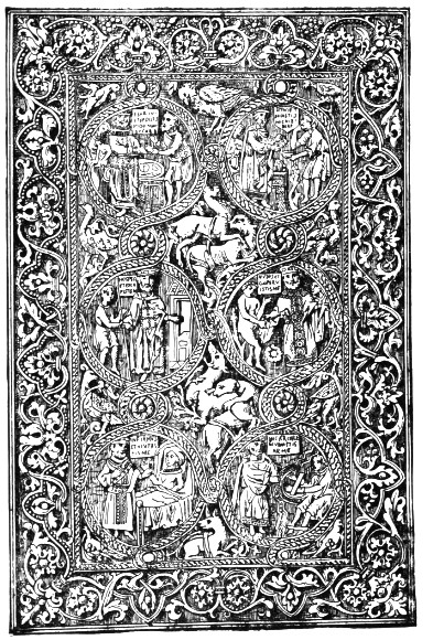 Melisende Psalter